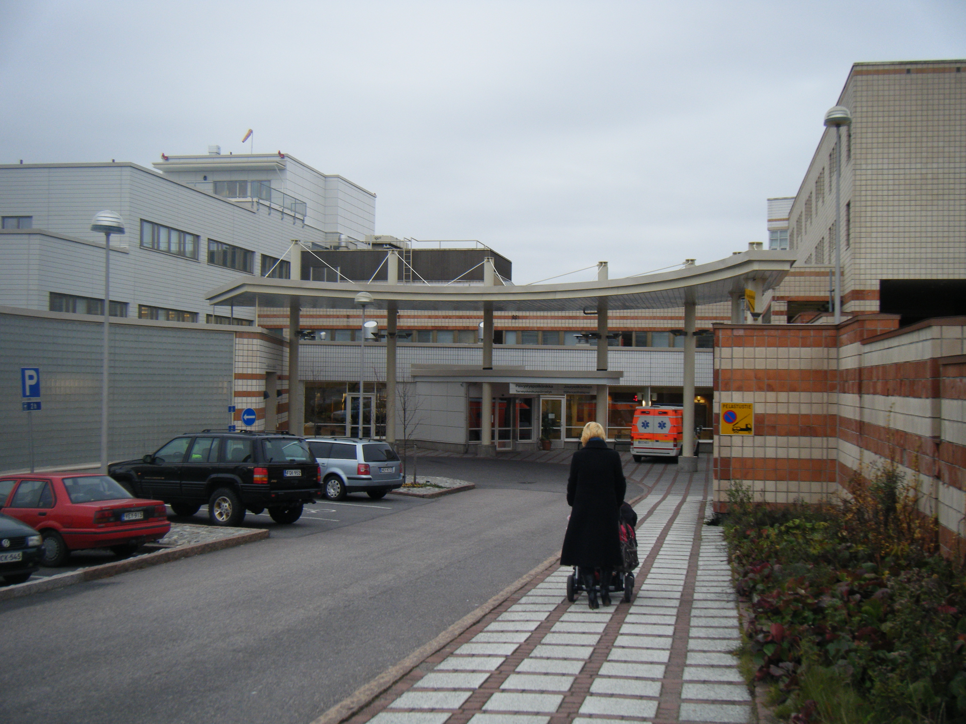 Peijas hospital in Vantaa, Finland. Emergency room entrance. / Peijaksen sairaala Vantaalla, päivystyksen sisäänkäynti.